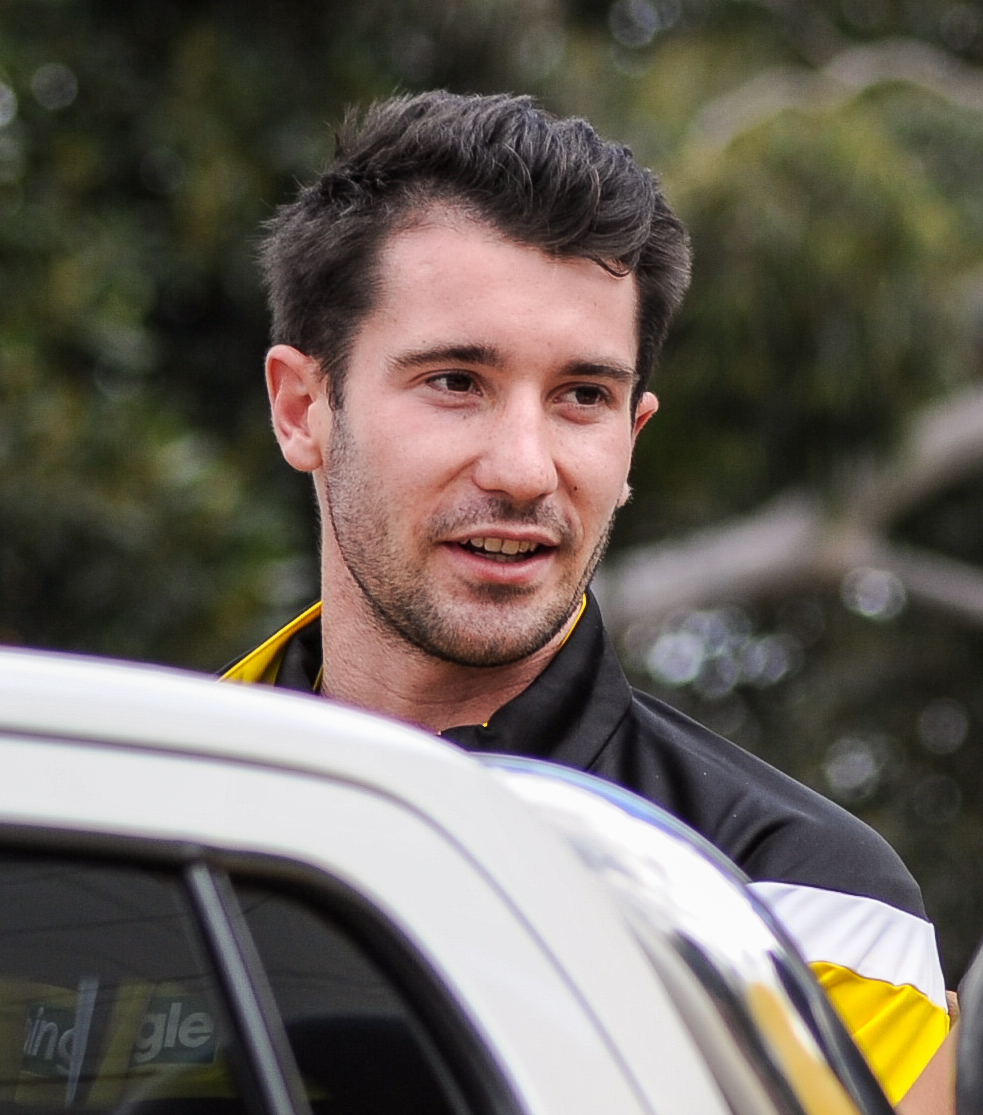 Corey Ellis at the 2017 AFL Grand Final parade on 29 September 2017 in Melbourne, Victoria.